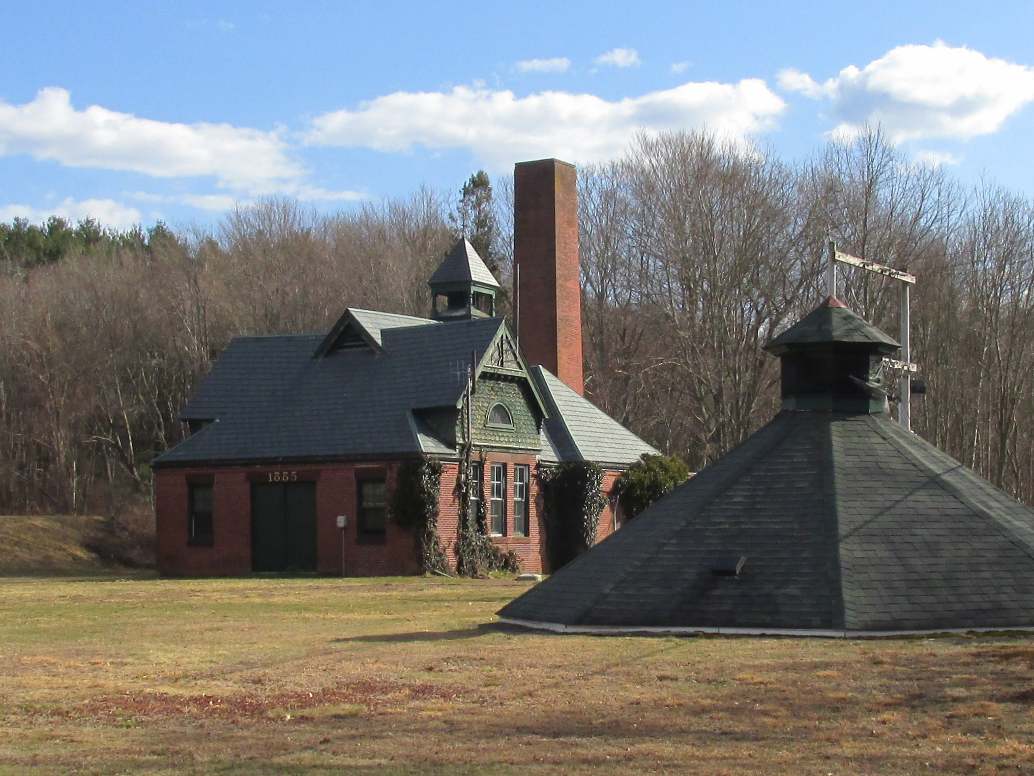 Middleborough Waterworks Pumping Station — water pumping station and waterwork on East Grove Street in Middleborough Massachusetts on the National Register of Historic Places in Plymouth County, Massachusetts